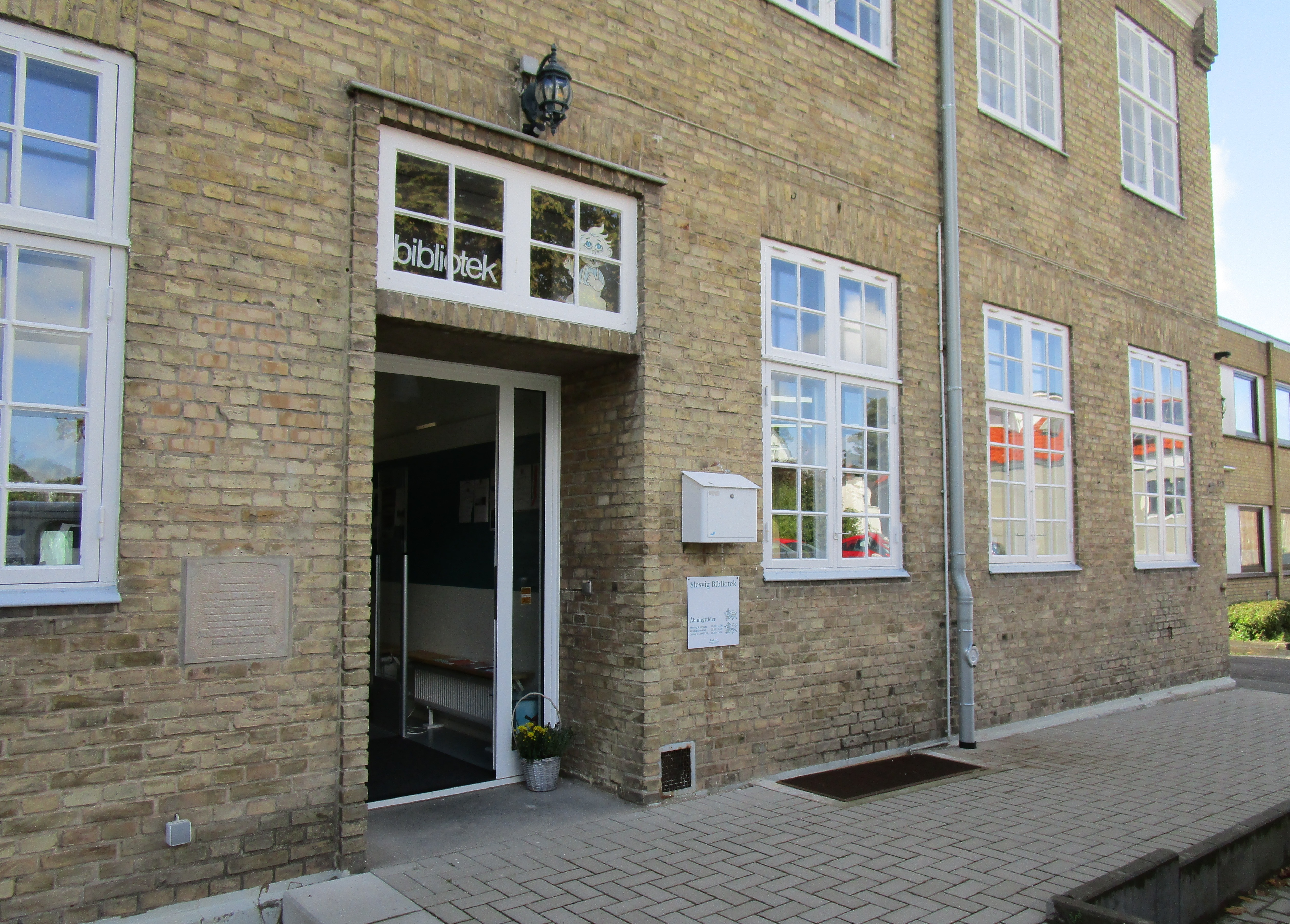 Slesvig Bibliotek i Ansgarhuset Slesvig / Schleswig